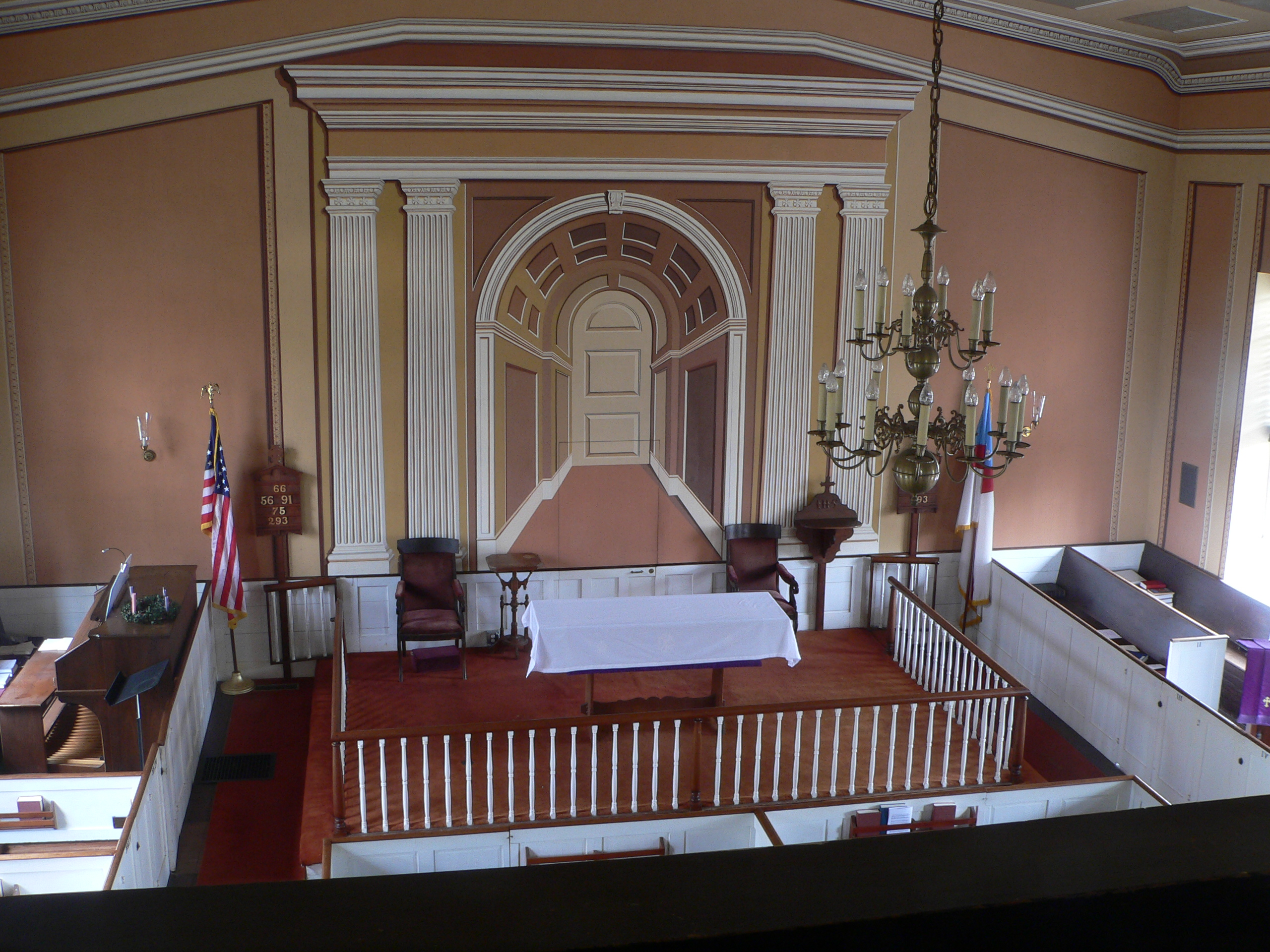 Interior of St. James Episcopal Church in Accomac, Virginia. Camera is in choir loft, looking down toward altar.